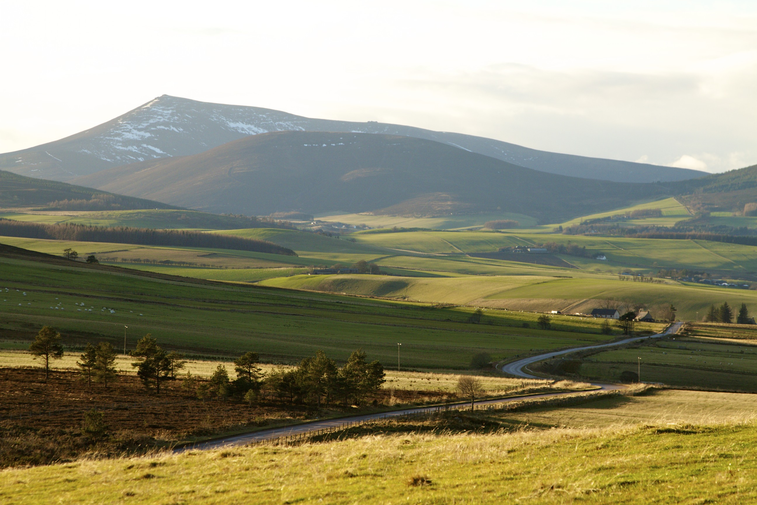 View Huntly to Dufftown Road